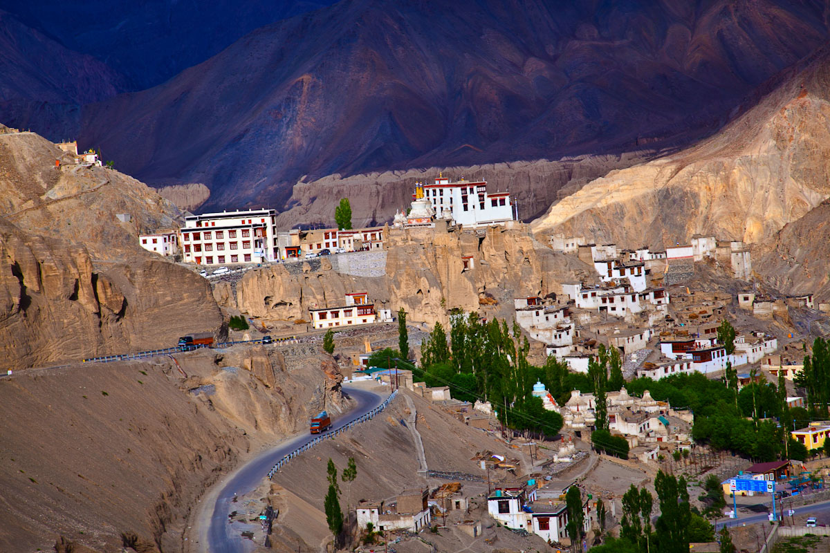 a distant shot of Lamayuru monastery.